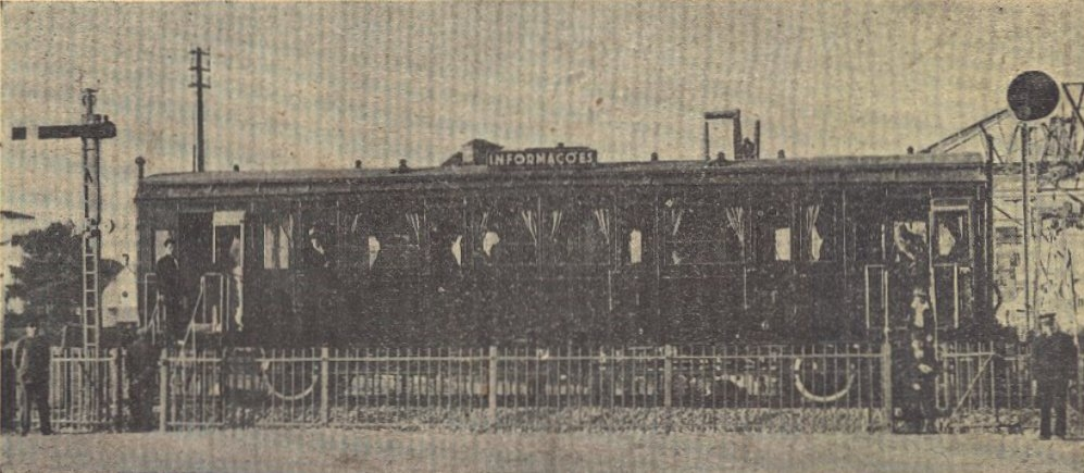 Stand of the Portuguese Railways Company at the 1932 Portuguese Industrial Exhibition. The main part is a first class carriage of the company, on a small piece of track build specifically for the exhibition. This photograph was published on the Gazeta dos Caminhos de Ferro magazine No. 1077, of the 1st November 1932, and scanned by the Hemeroteca Municipal de Lisboa.